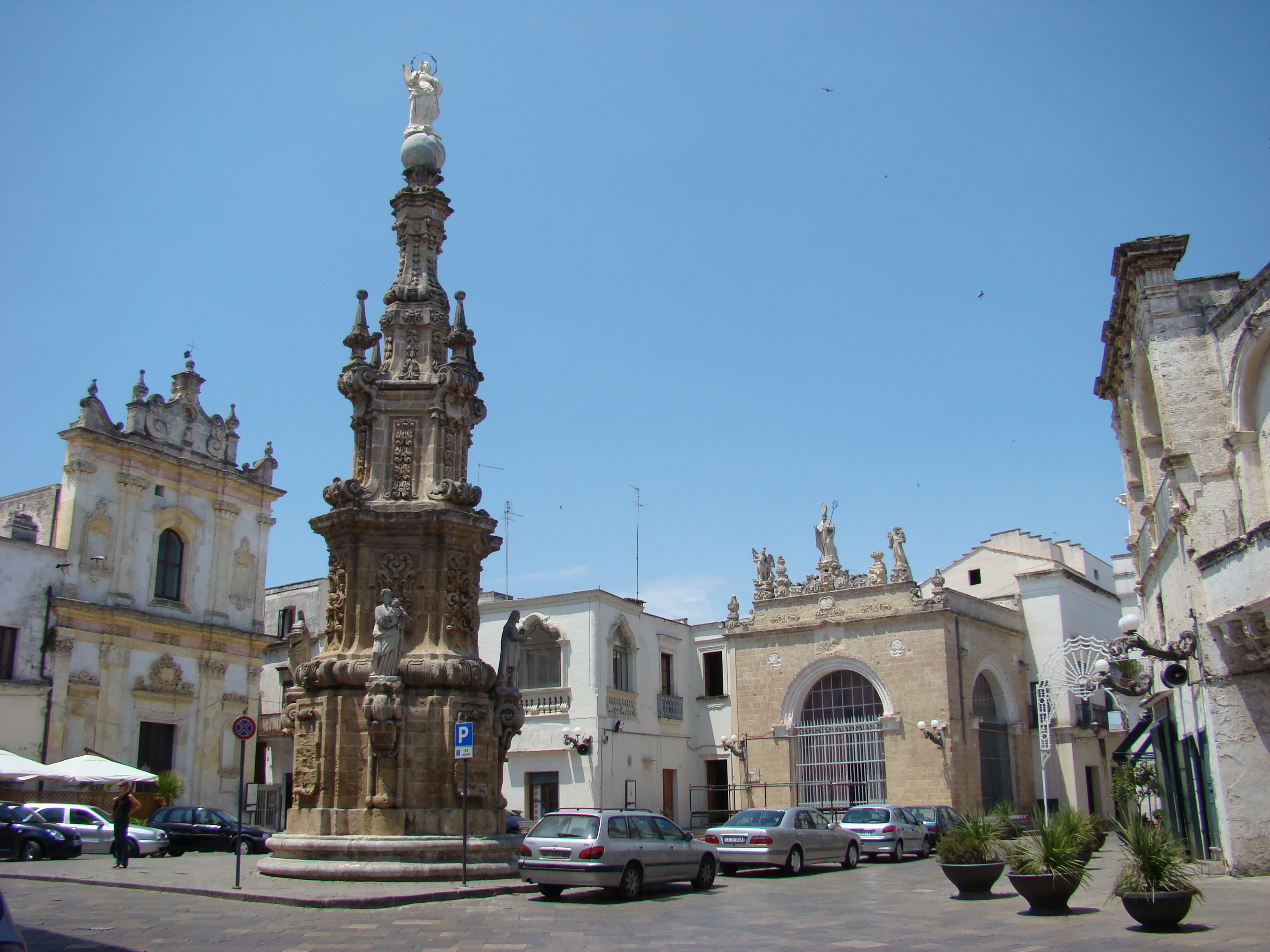 Nardo - Piazza Salandra